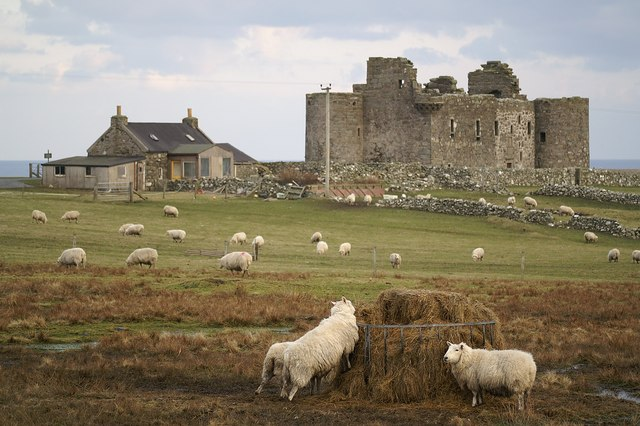 Muness Castle Sheep feeding in front of Muness Castle, with Castle Cottage to the left.